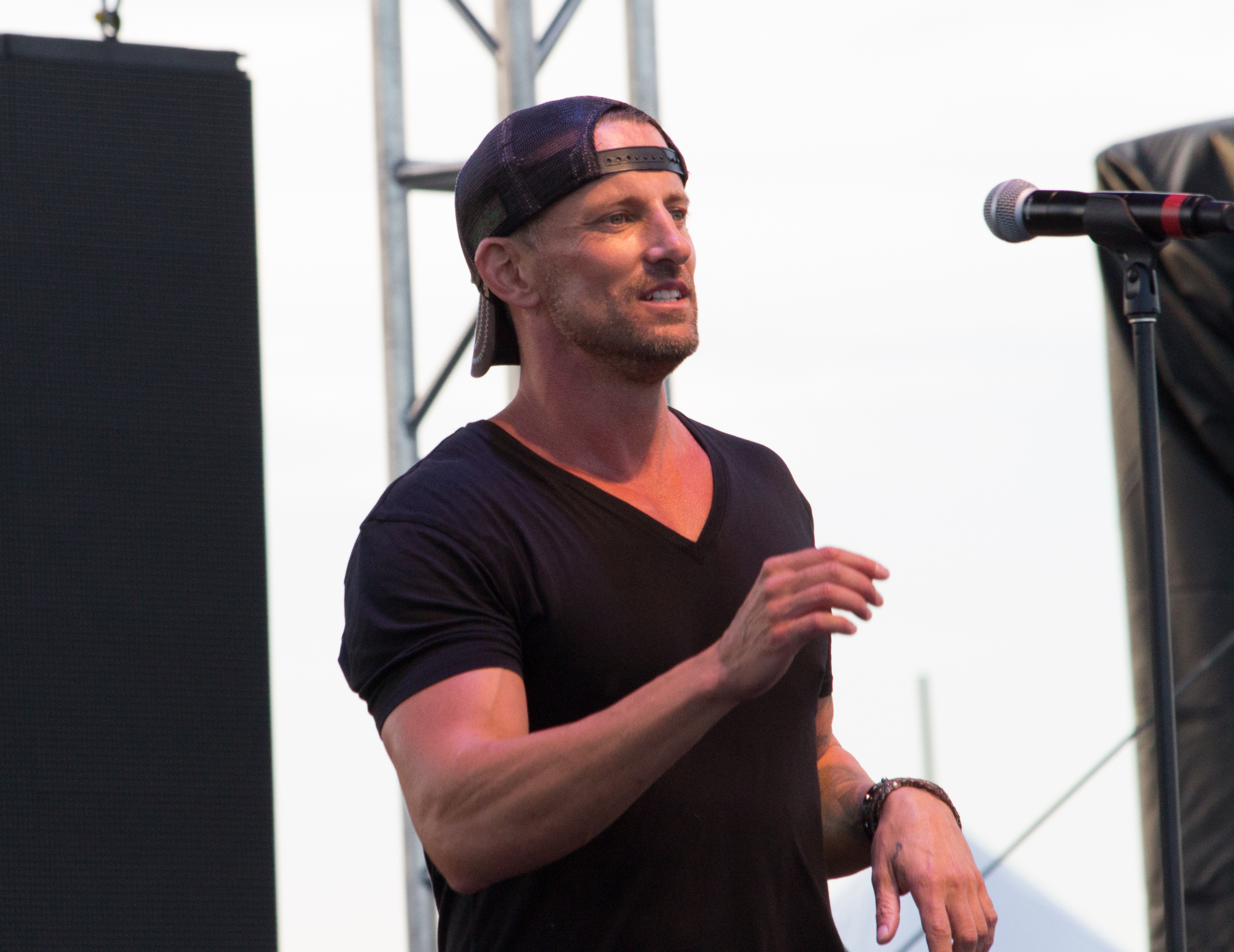 Powter performing at the Festival of Friends in 2013